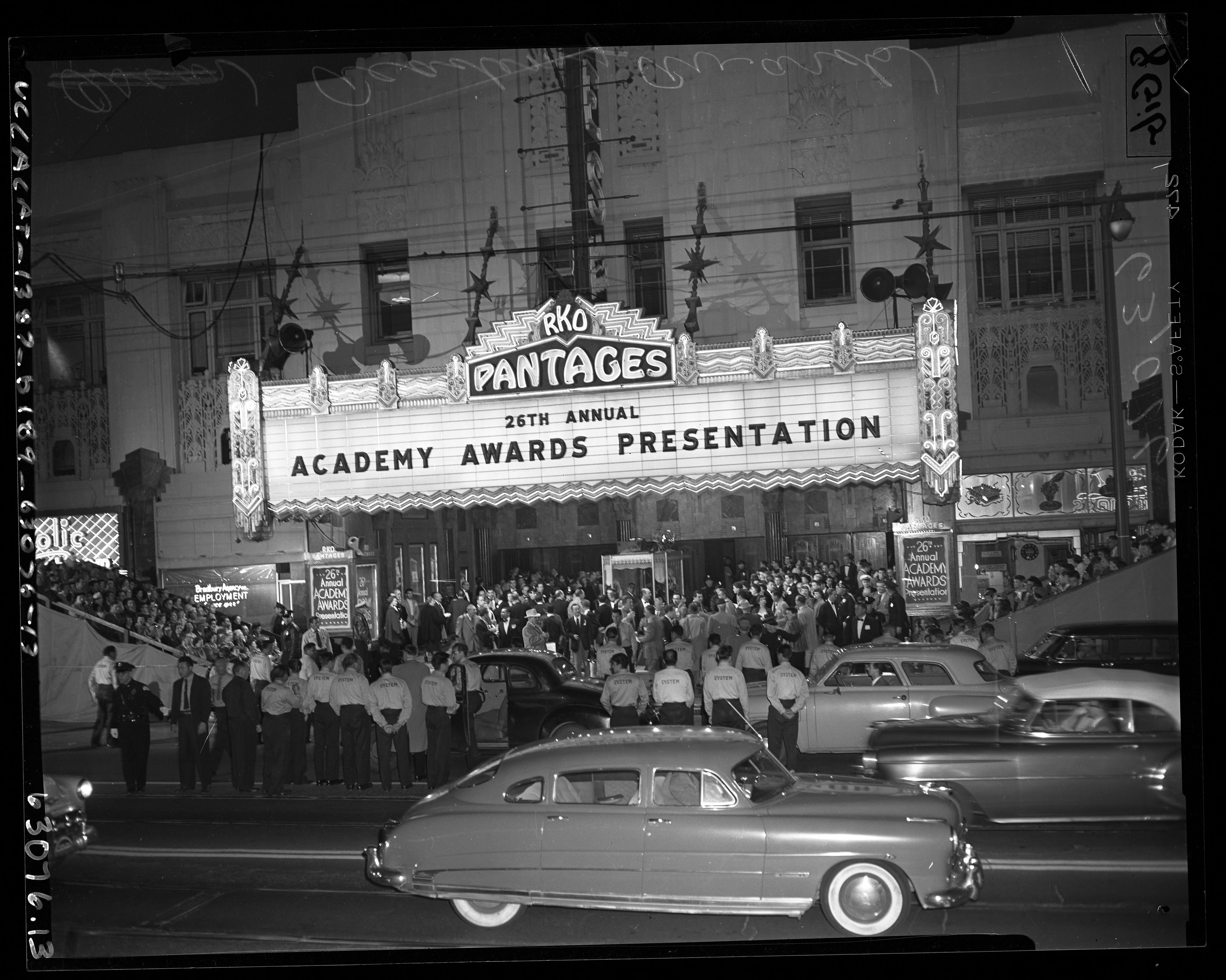 Outside the 26th Annual Academy Awards at RKO Pantages Theater in Los Angeles, Calif., 1954.